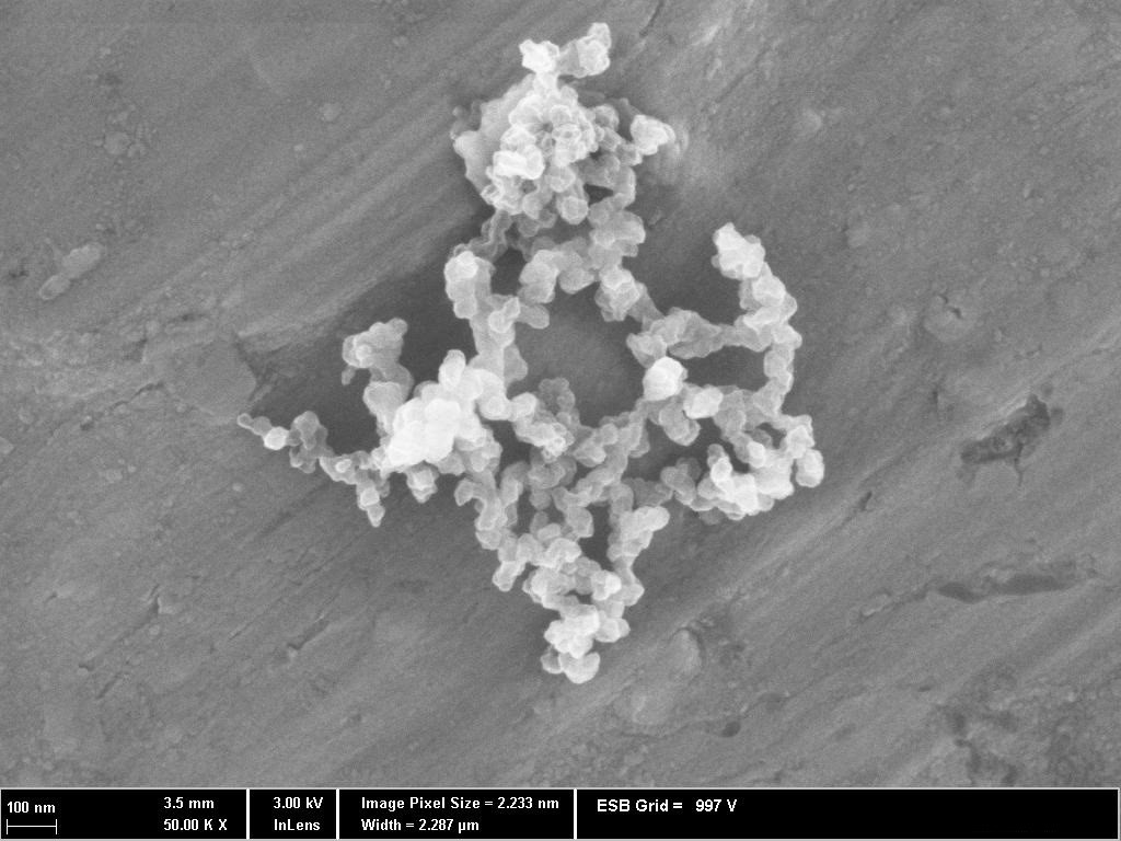 CHEZACARB structure (pictures from SEM, taken by PIB, there is no reference to an official article)